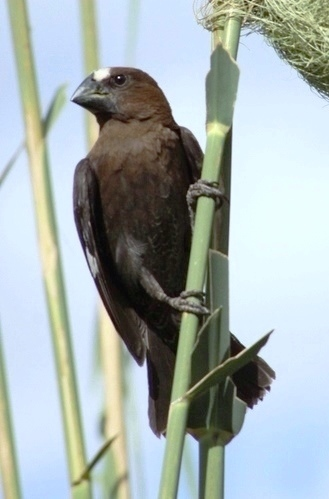 A male Grosbeak weaver (also known as Thick-billed weaver) in Pretoria, South Africa